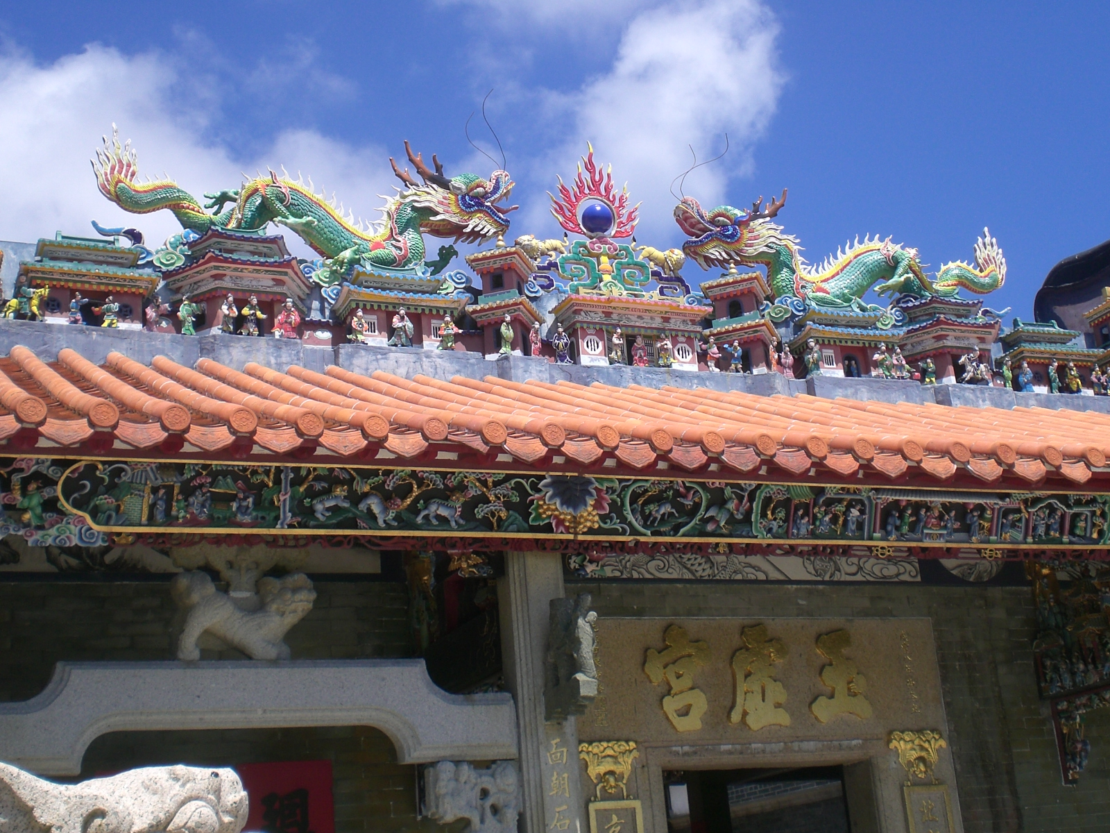 長洲玉虛宮的zh:屋簷特色: 二龍爭珠